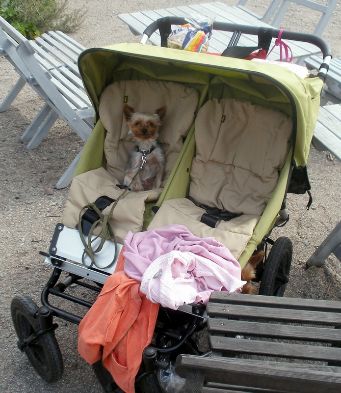 A dog and his carriage